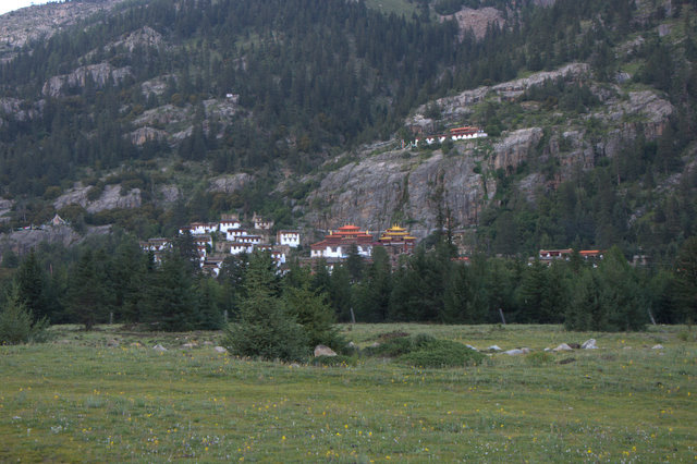 Pangphuk Monastery in Lithang